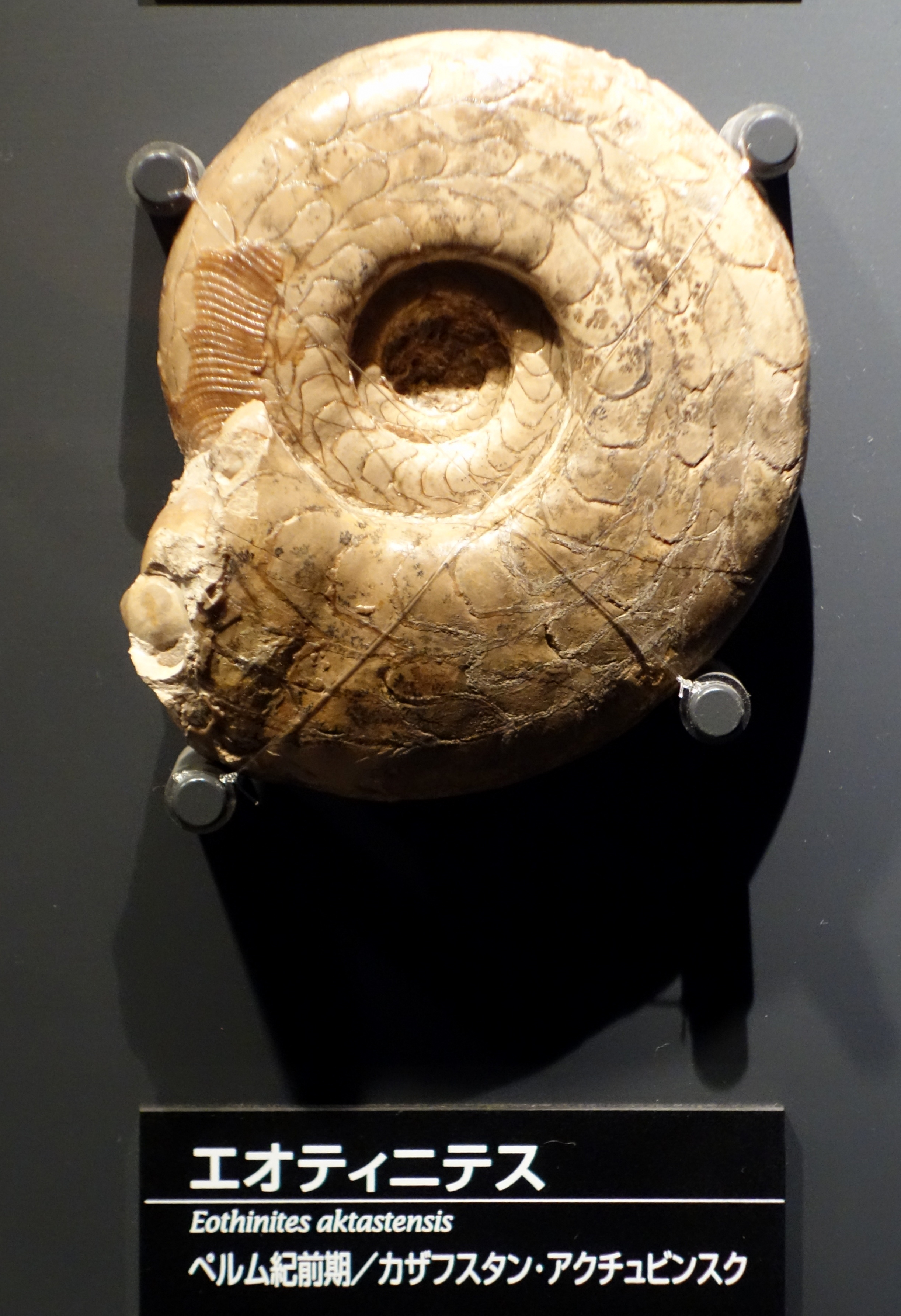 Exhibit in the National Museum of Nature and Science, Tokyo, Japan.